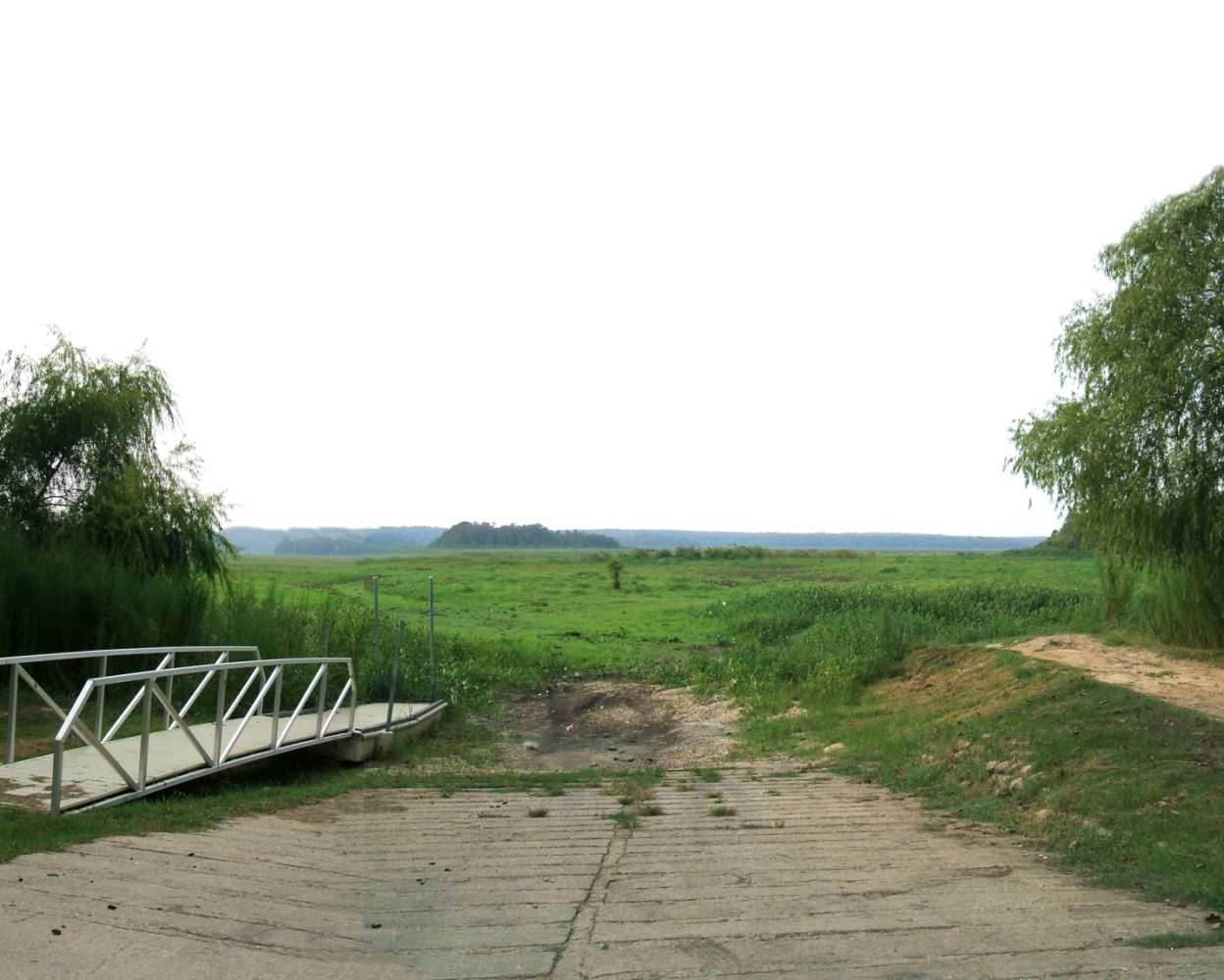 Digital photo. Shot by user on August 3, 2007 with a Fuji 500 camera. Photo shows Lake Iamonia in Leon County, Florida in its "prairie stage" during the drought of 2007.